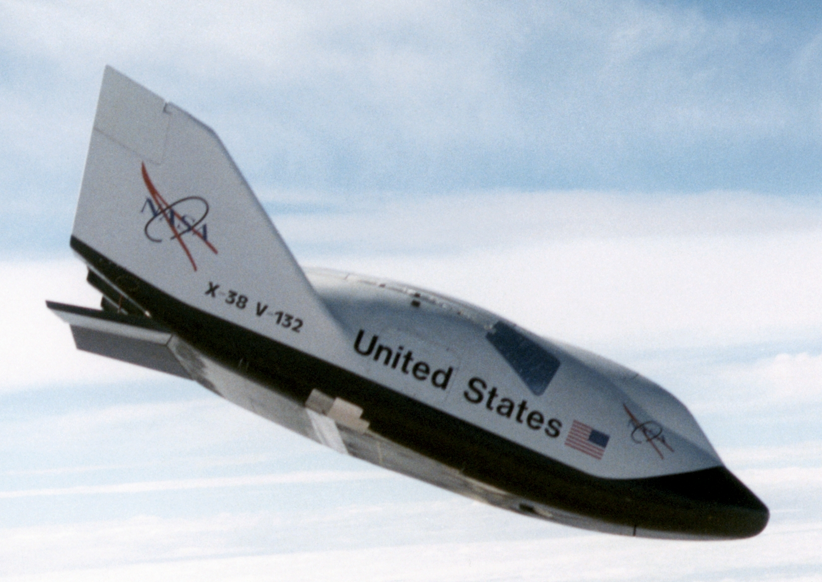 The X-38, a research vehicle built to help develop technology for an emergency Crew Return Vehicle (CRV) for the International Space Station, descends under its steerable parachute during a July 1999 test flight at the Dryden Flight Research Centre, Edwards AFB, California. It was the fourth free flight of the test vehicles in the X-38 programme, and the second free flight test of Vehicle 132 or Ship 2. The goal of this flight was to release the vehicle from a higher altitude -- 31,500 feet -- and to fly the vehicle longer -- 31 seconds -- than any previous X-38 vehicle had yet flown. The project team also conducted aerodynamic verification maneuvers and checked improvements made to the drogue parachute.